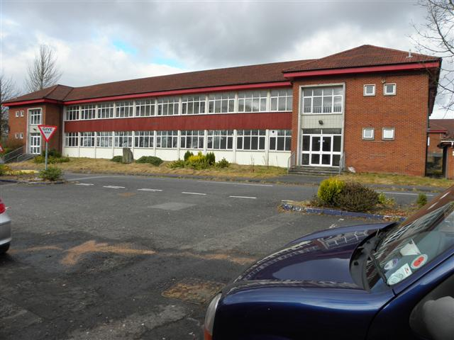 HQ, Lisanelly Barracks, Omagh. Located off the Gortin Road, they were totally vacated by the army in 2007, but still kept secure by a private security firm - before the troubles in September, 1968, the army gave a display in the then showgrounds at Sedan Avenue - see 285496. It is envisaged that most of the properties on this site will be demolished to make way for a new educational campus.